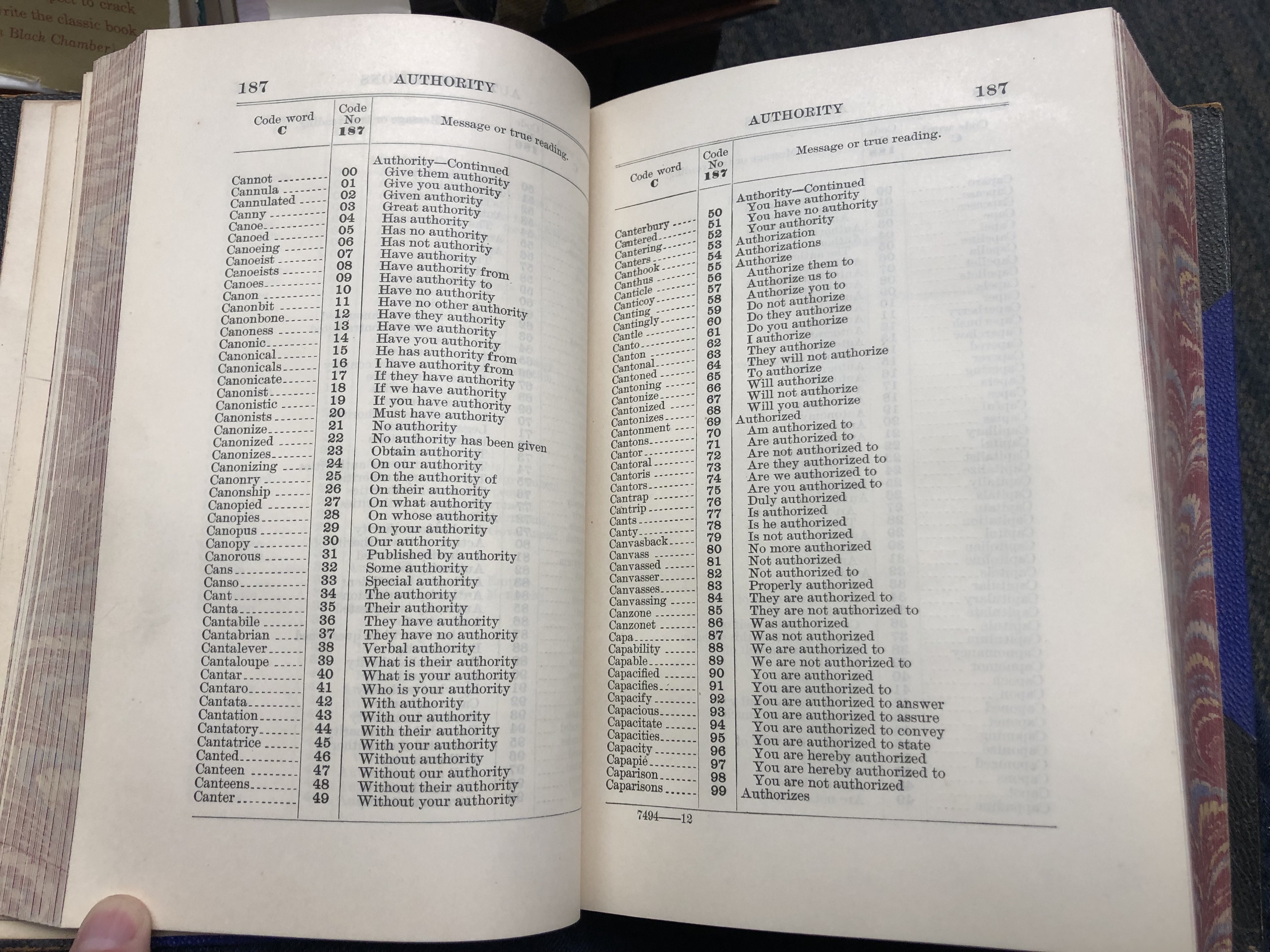 Page 187 of State Department 1899 code book in the library of the National Cryptologic Museum in Maryland